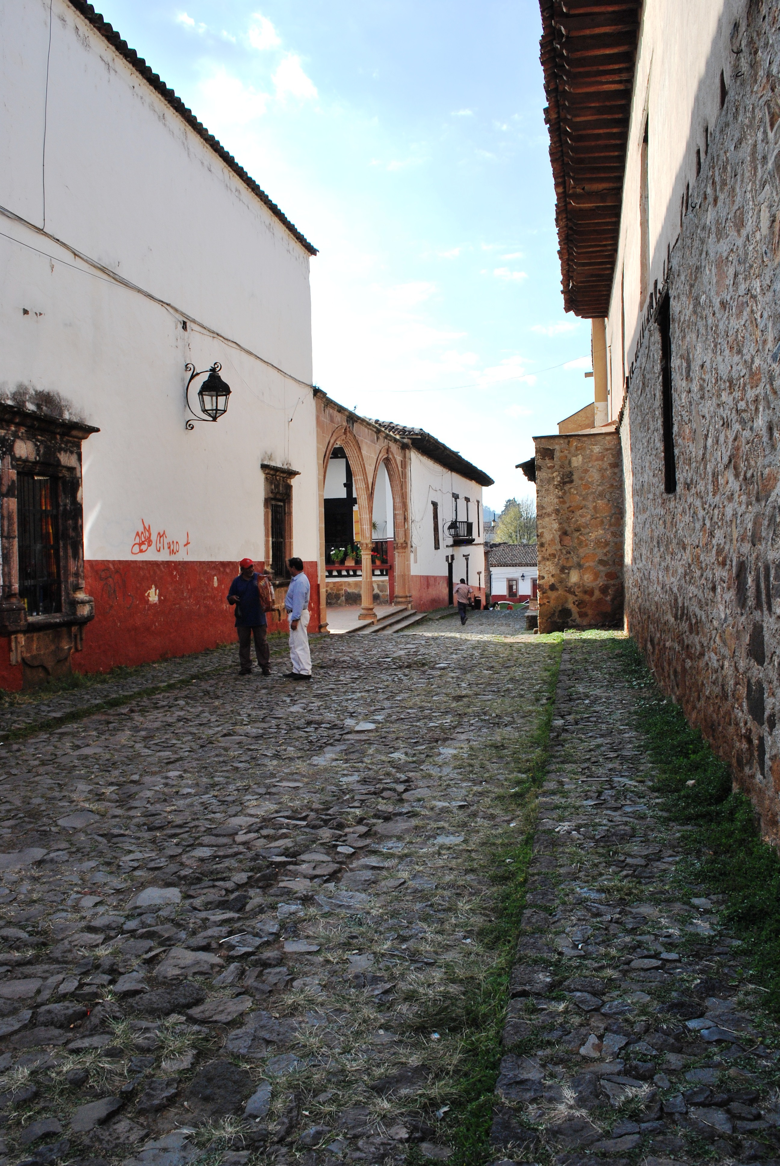 Street in front of the entrance to the Casa de los Once Patios in Patzcuaro, Michoacan